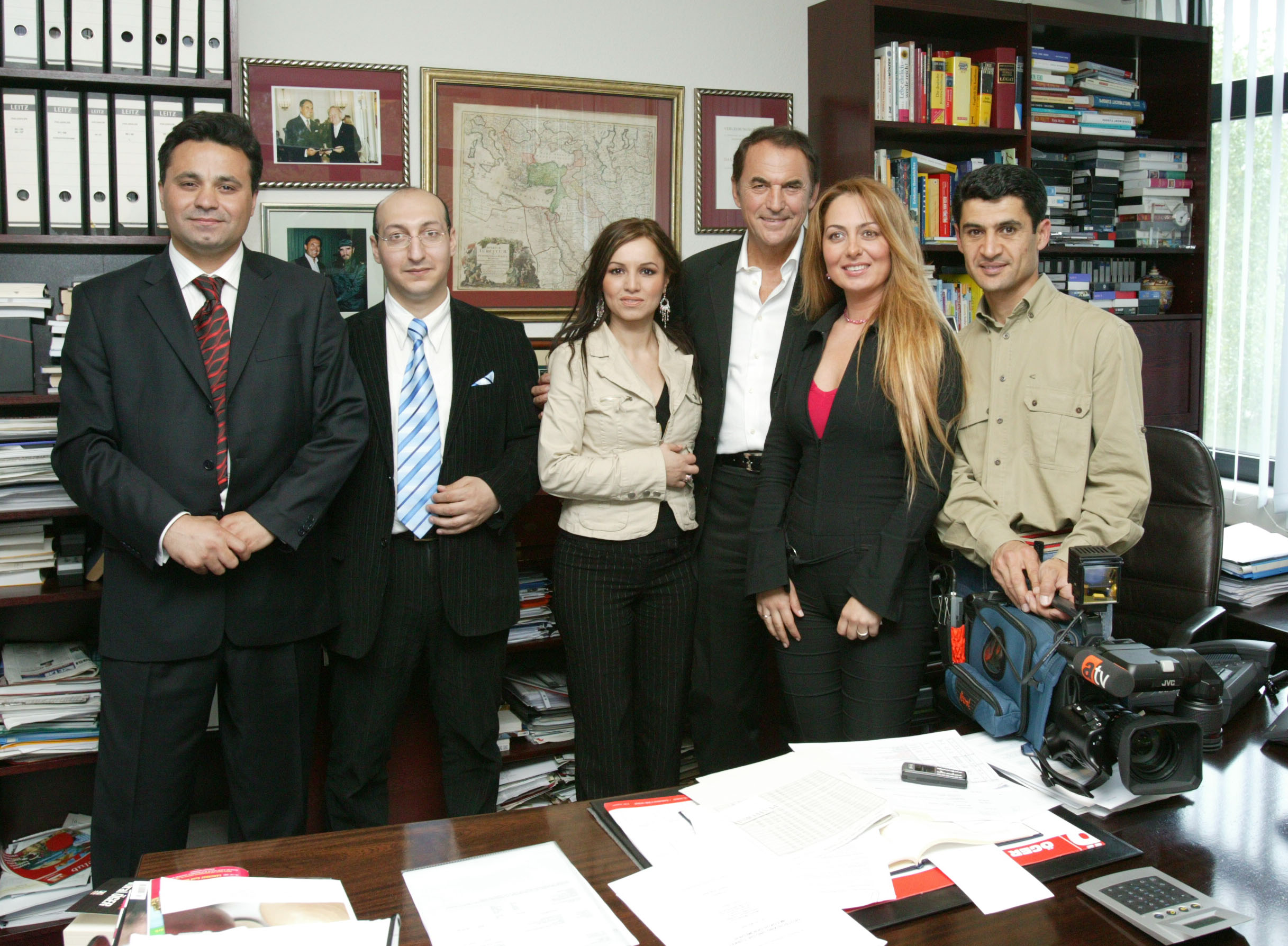 German film director Yusuf Fersat and Europe Parlament Senator Vural Oger